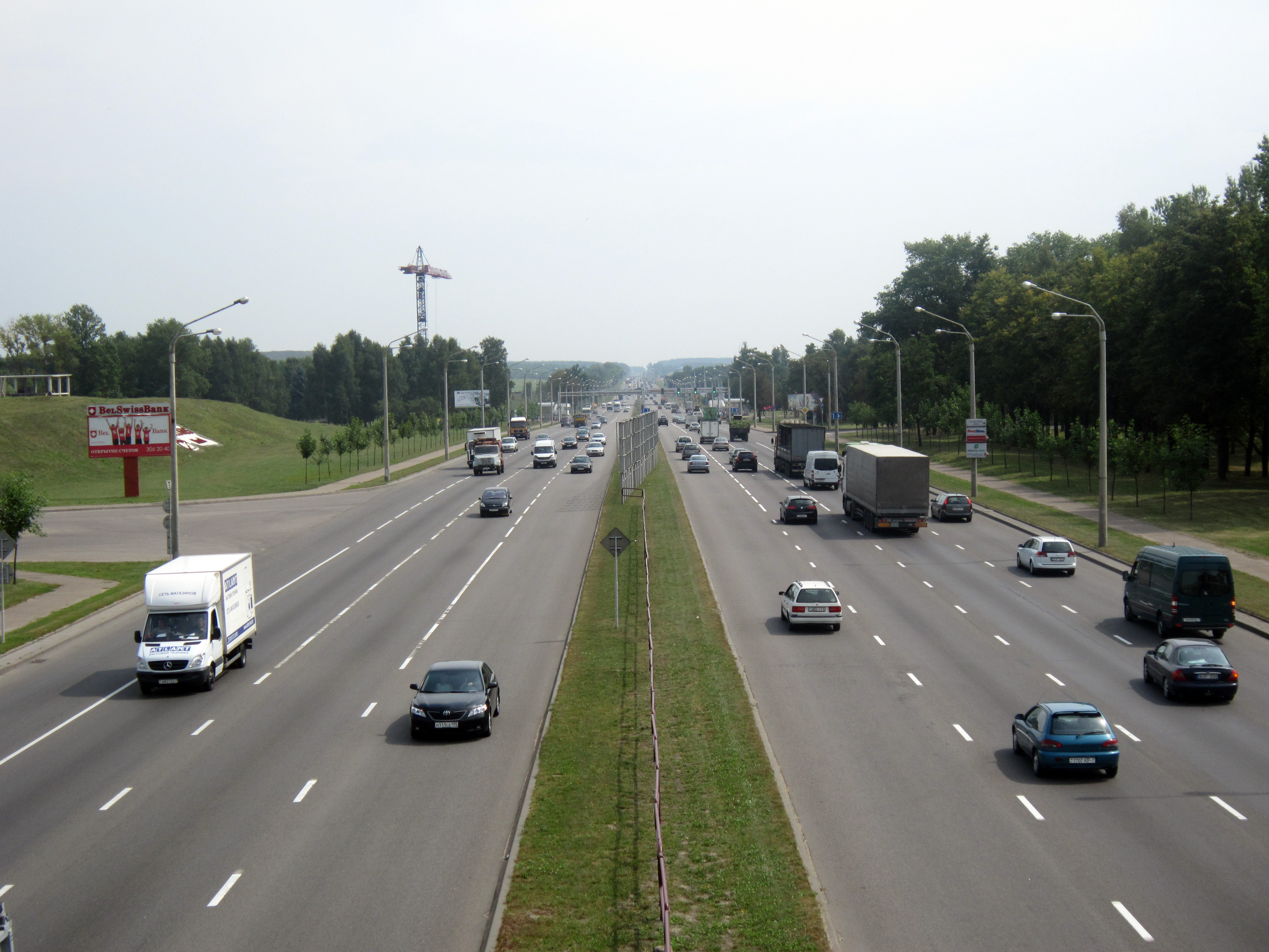 Partyzanski avenue in Minsk